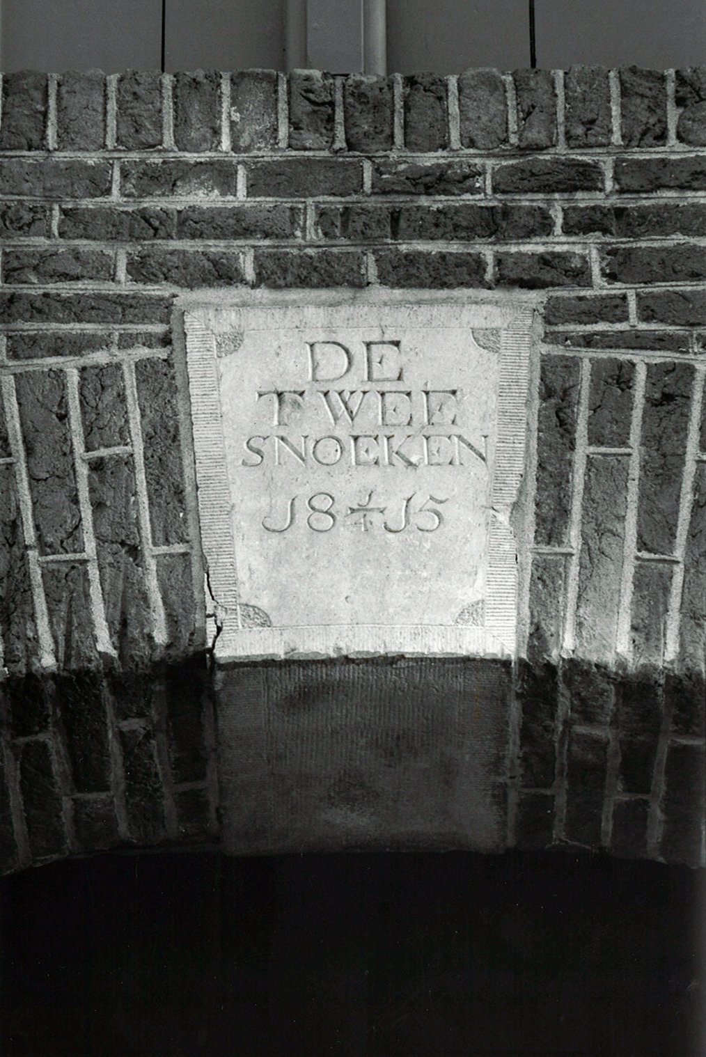 keystone in the old warehouse 'De Twee Snoeken'